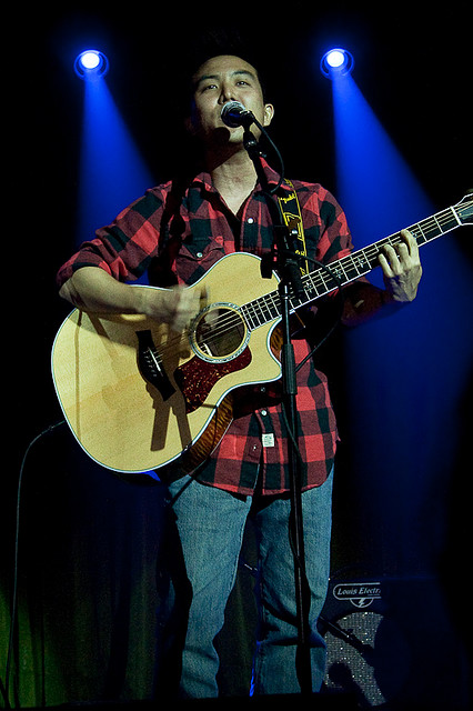 A photo of David Choi at a concert taken on the 6th of June 2009 using a Canon EOS Digital Rebel XT.